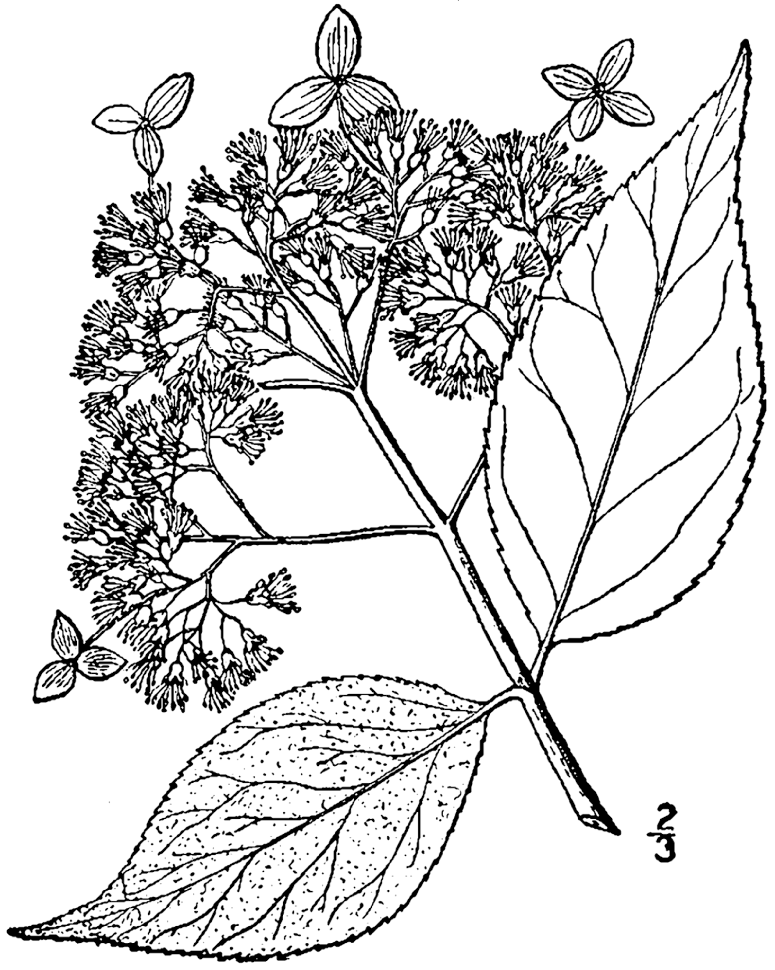 Hydrangea cinerea Small (ashy hydrangea)